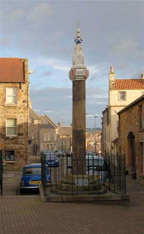 Inverkeithing Mercat Cross Situated at the north end of Inverkeithing Square and the beginning of Bank Street,the pillar section of this monument dates back to about 1400 while the Unicorn on the top was carved in 1688.